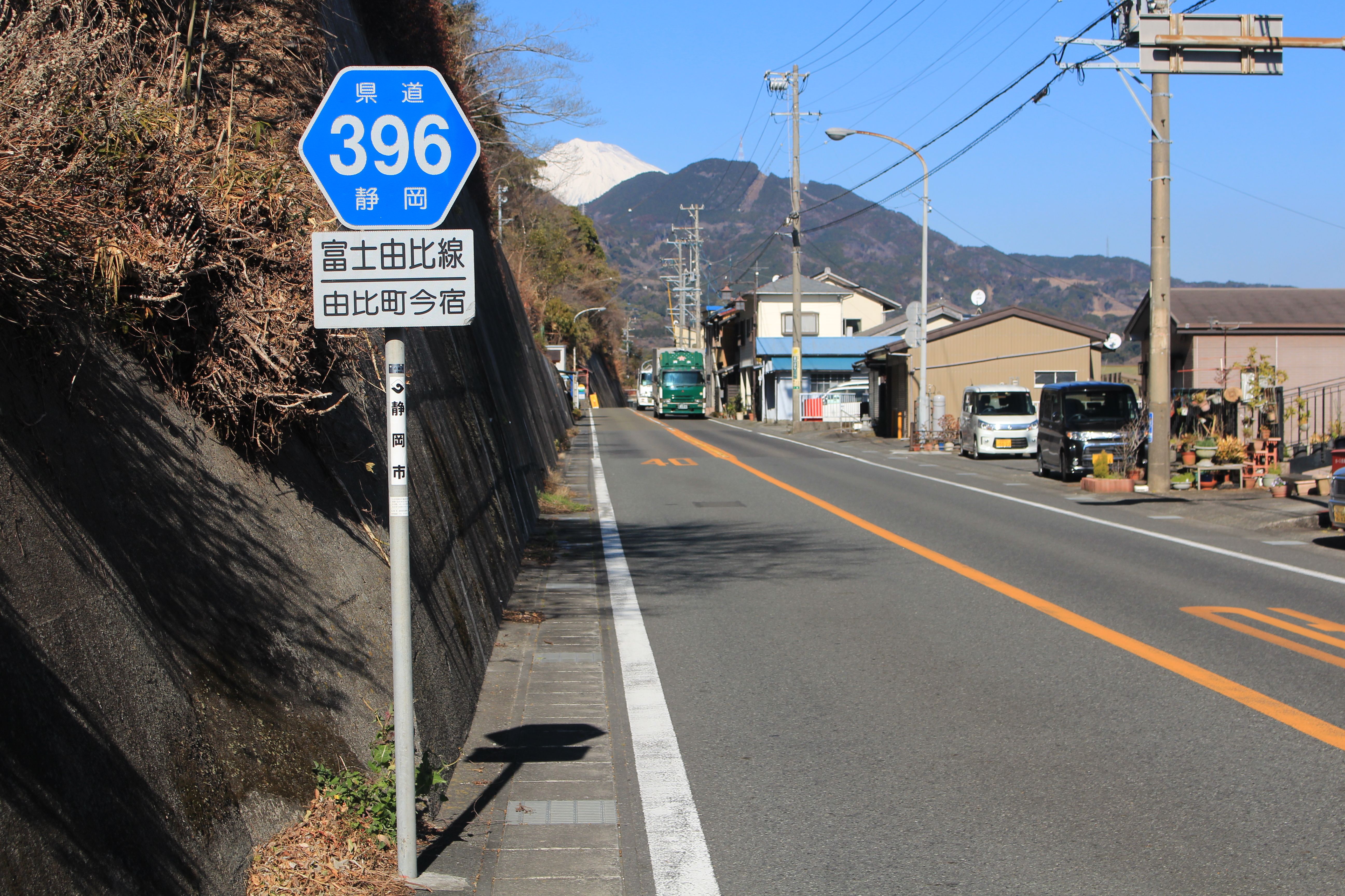 Shizuoka Prefectural Road Route 396 and Mount Fuji, in Yui, Shimizu-ku, Shizuoka city, Shizuoka prefecture, Japan.